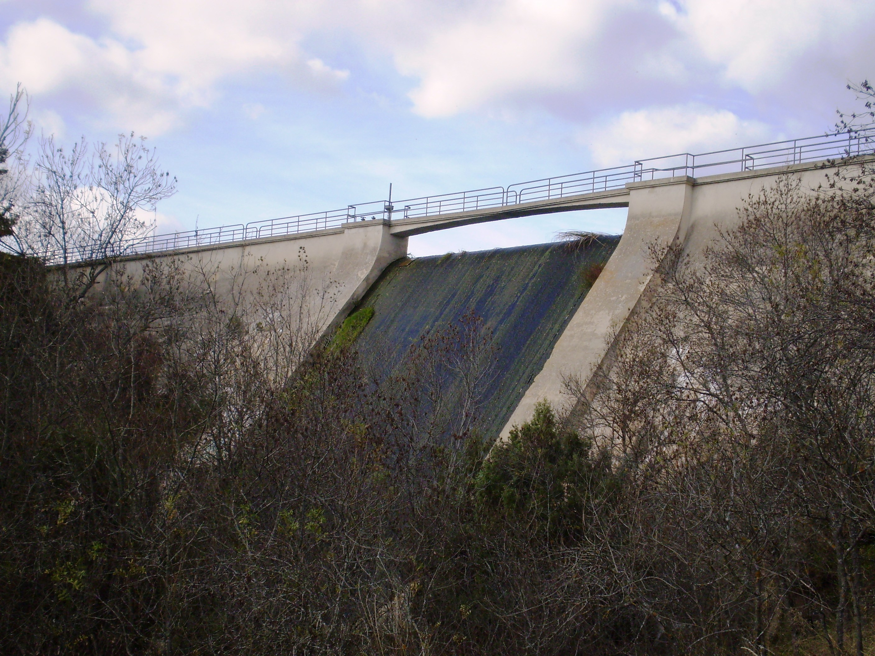 Gabriel Enríquez de la Orden Reservoir, in Los Peñascales, Torrelodones (Community of Madrid, Spain).